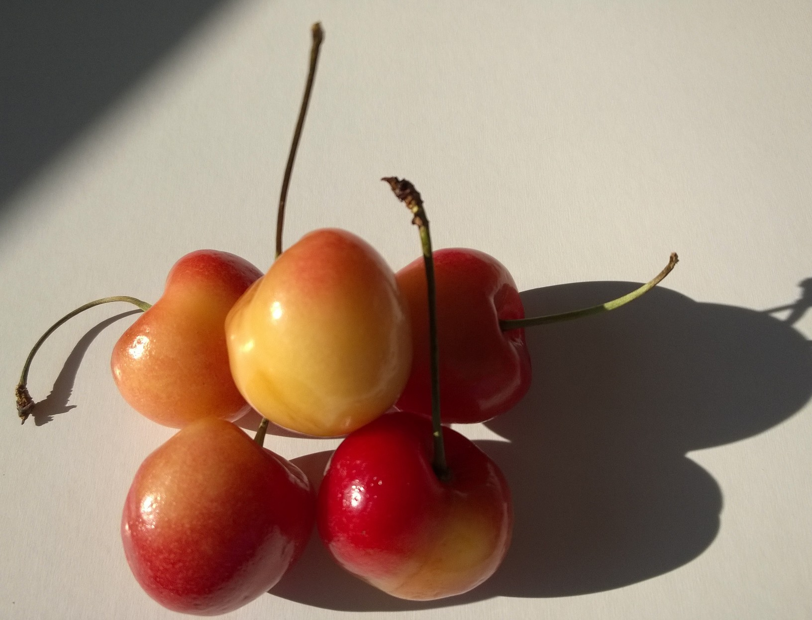 Close-up of Rainier cherries from the state of Washington, USA, distributed by Chelan Fresh